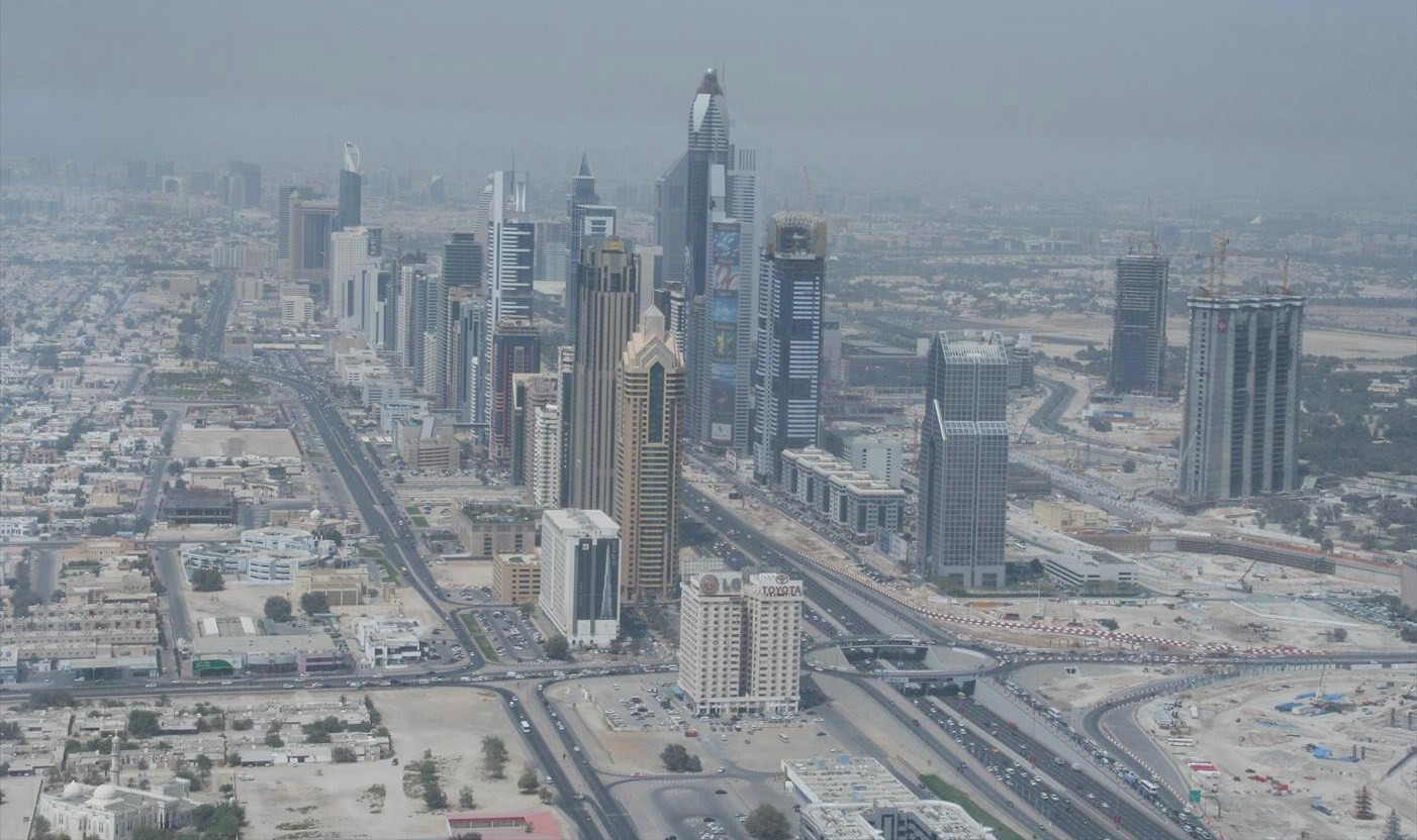 This is a photo showing Sheikh Zayed Road and its skyscrapers in Dubai, United Arab Emirates as seen from the air on 1 May 2007.